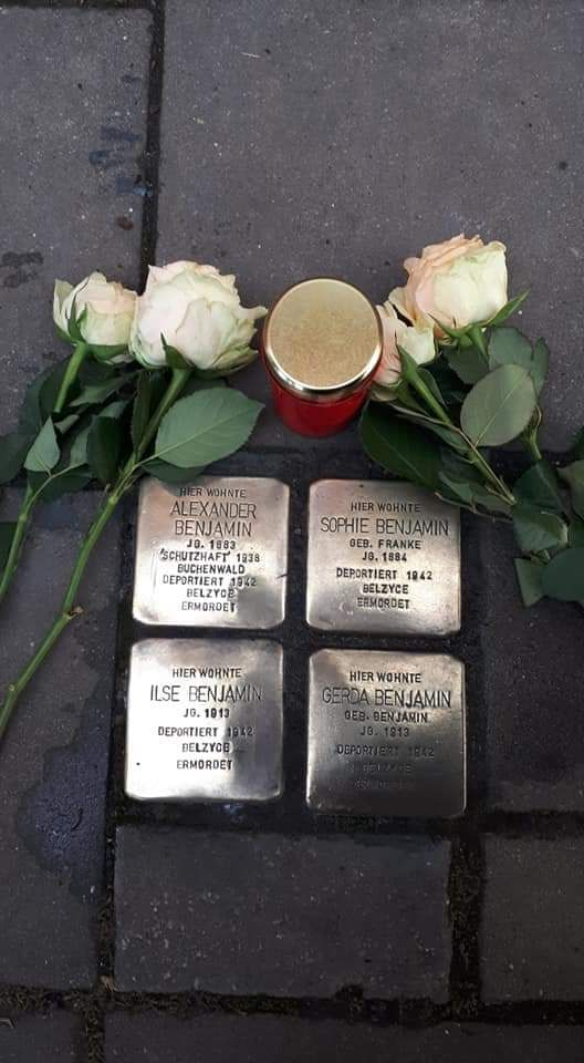 Stolpersteine im Gedenken am Familie Benjamin in der Friedrich-Engels Straße in Pößneck